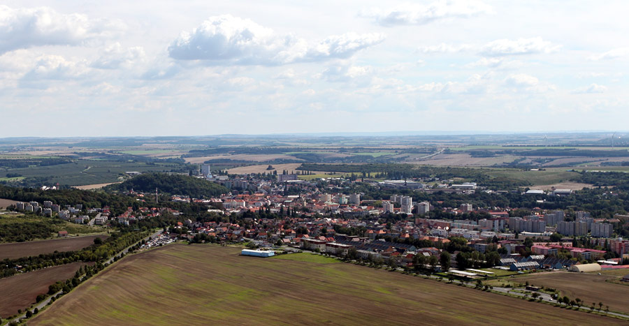 Czech town Slany - aerial view from west-northwest